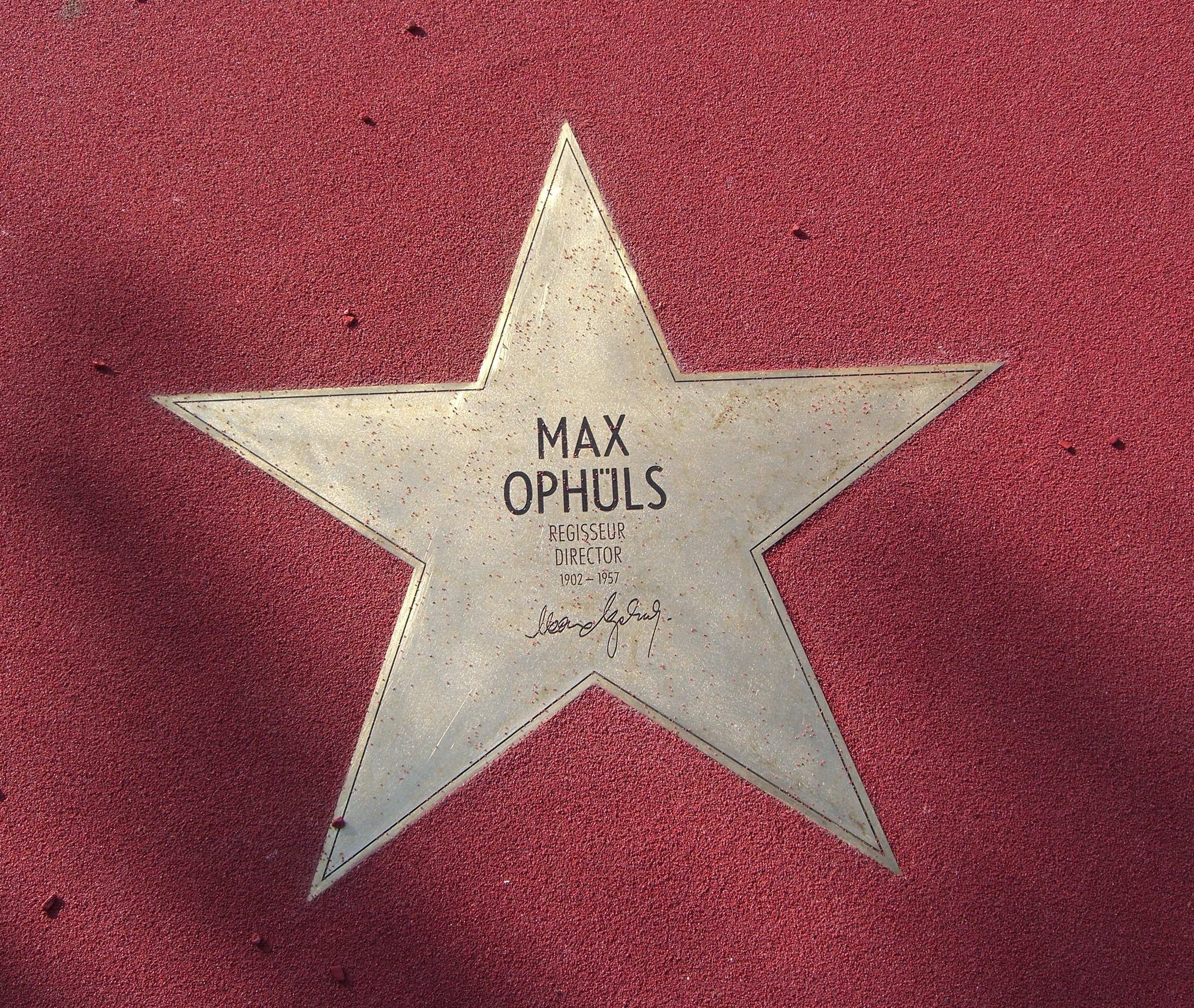 Star of Max Ophüls at "Boulevard der Stars" in Berlin.